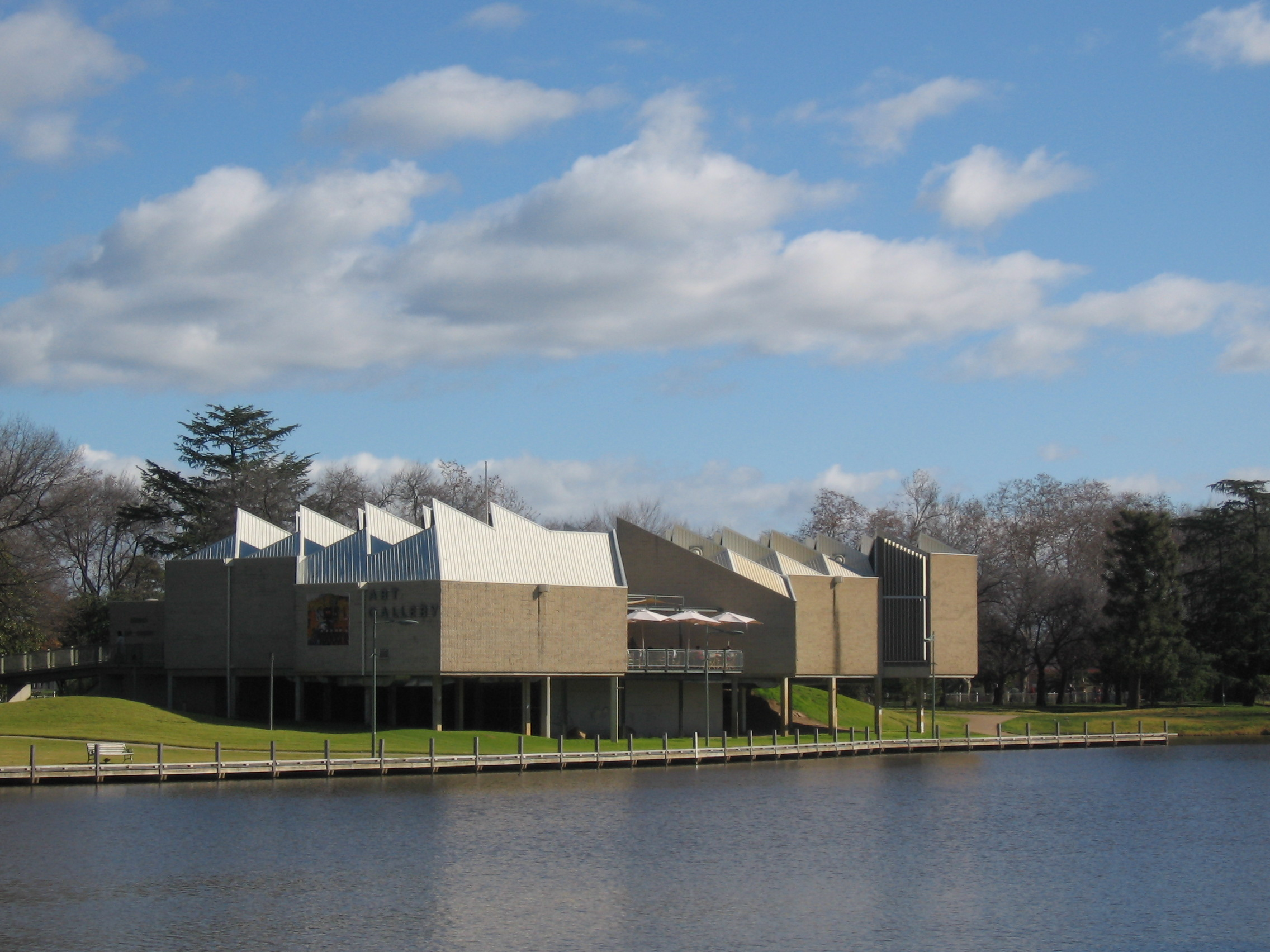 Lake Benalla and Art Gallery at Benalla, Victoria